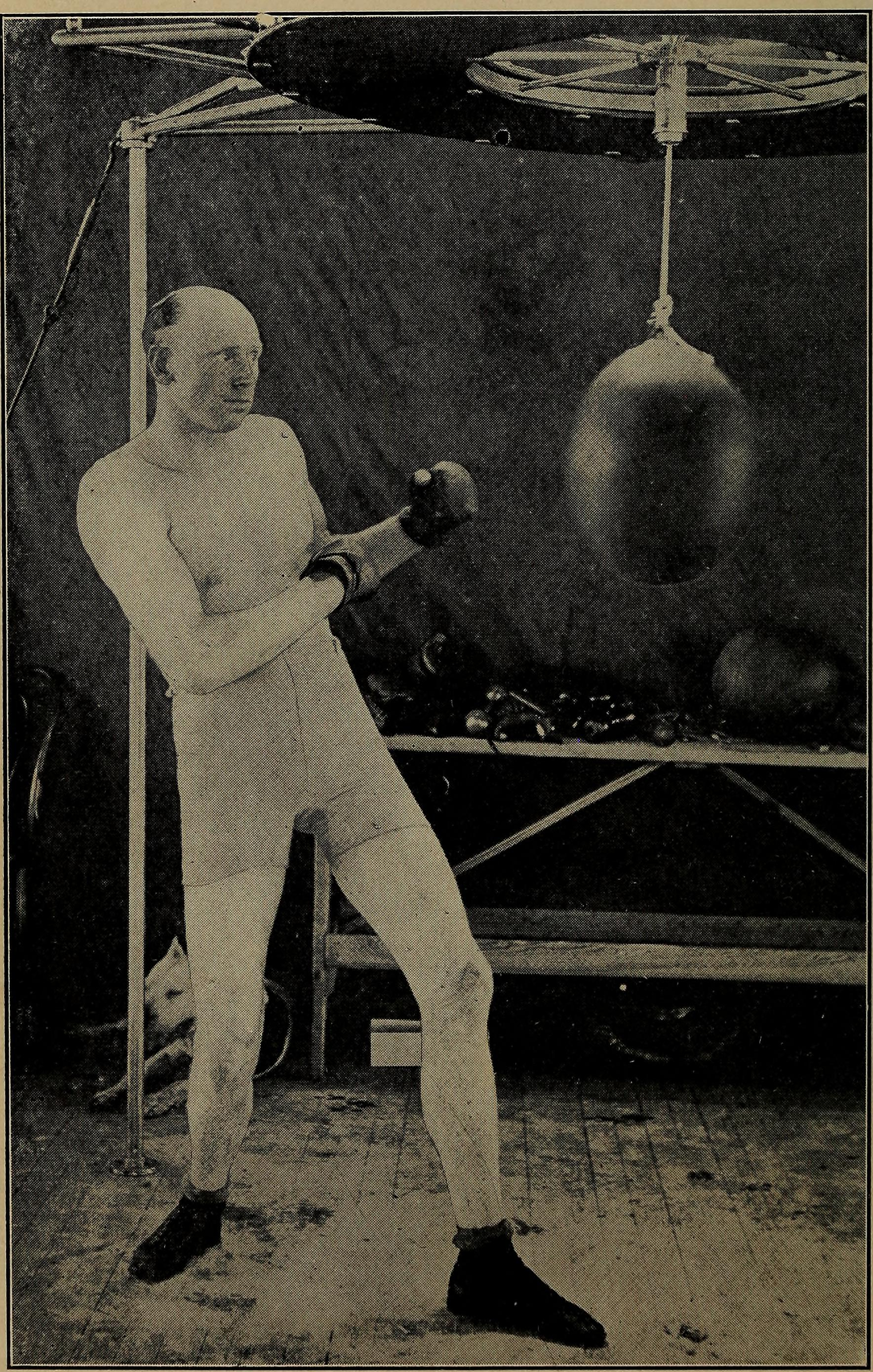 Title: Physical culture and self-defense Year: 1901 (1900s) Authors: Fitzsimmons, Robert, 1862-1917 Subjects: Physical education and training Boxing Publisher: Philadelphia : D. Biddle Text Appearing Before Image: ball hang on a level withthe bottom, and just about on a level with, ora little bit above, your shoulders. It is best when punching the ball to stand onthe bare floor, not on a mat, as you are apt tobecome sluggish in your foot-work if you adoptthe latter course. Wear regular gymnasium shoes, and the lessclothes you have on the better. It will giveyou more freedom of movement. Put on small gloves. If you cannot get whatare known as **punching-bag gloves, take anold pair of kid gloves. Cut the ends of thefingers off if you wish, as the glove is wornsimply to protect the knuckles and to givecompactness to the hand. As to the different movements and blows,it would take up too much space to go intodetails. And, again, it is hardly necessary.Get the bag and you will soon teach yourselfhow to do the punching. At first you must be careful not to get hit bythe ball when it rebounds from the platformafter you strike it. This is only a preliminarydanger, however. You will, soon become too (78) Text Appearing After Image: PUNCHING THE BAG. IN A POSITION TO DELIVER LEFT